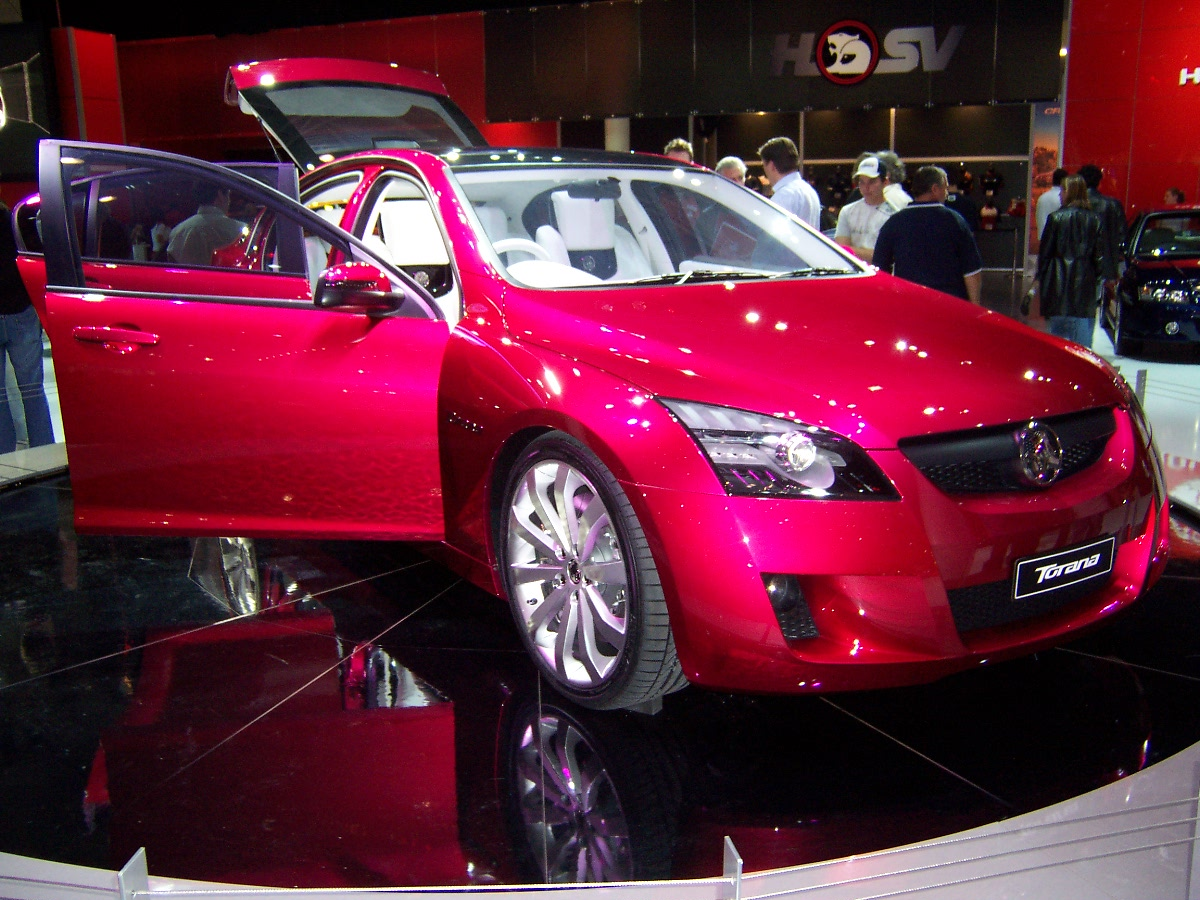 2004 Holden Torana TT36 concept car, photographed at the 2004 Australian International Motor Show.